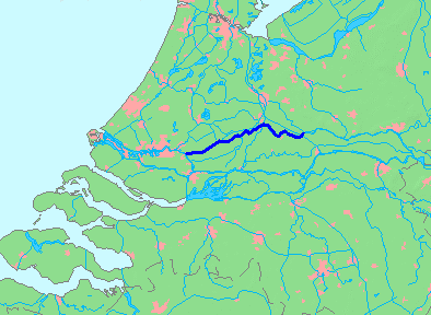 Location of a waterway (river/canal) in the Netherlends